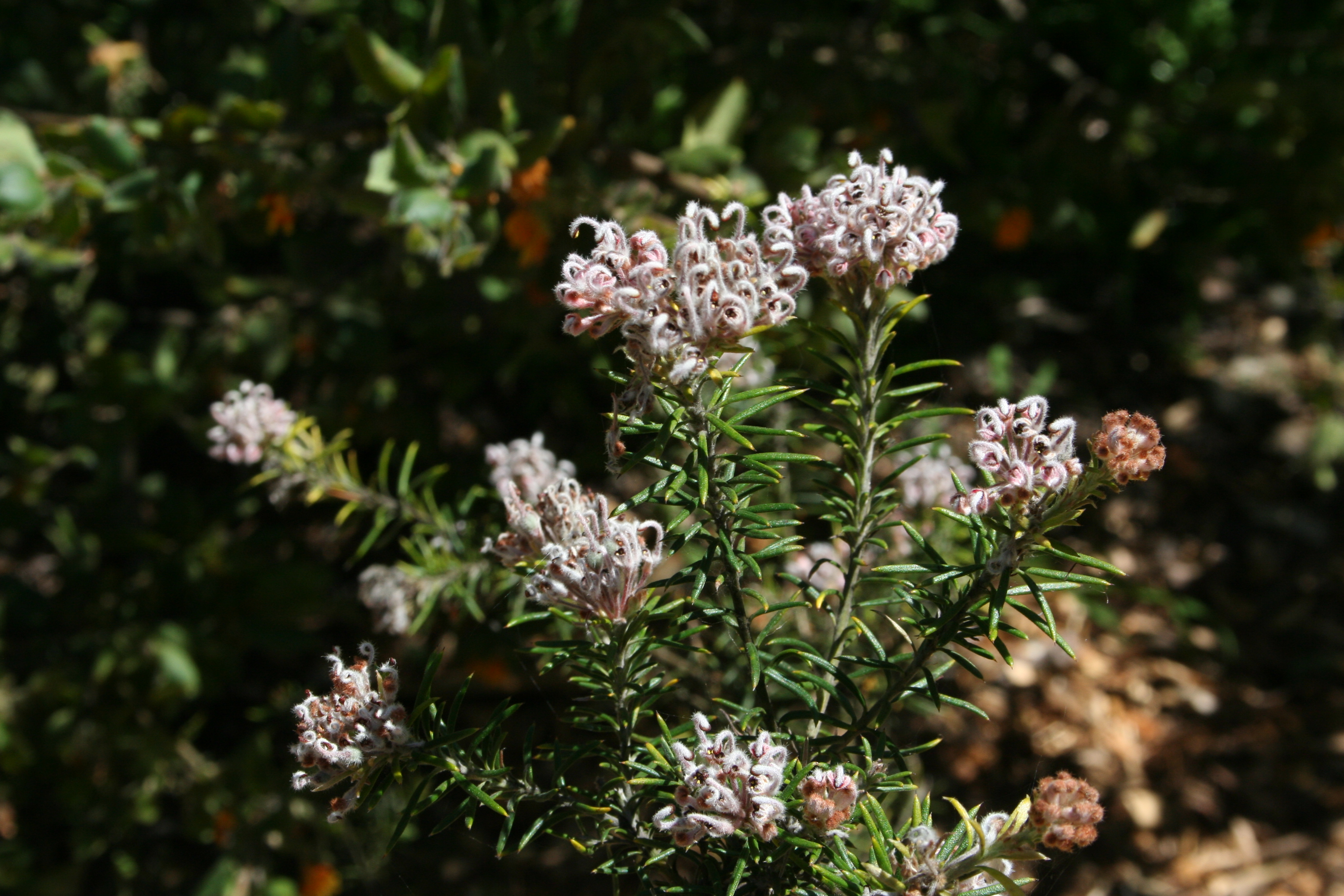 Grevillea acerata, cult. Hunter Region Botanic Gardens